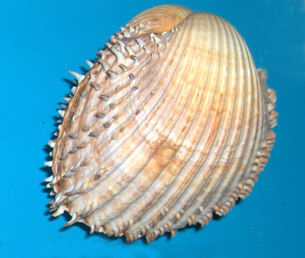 Acanthocardia aculeata, the spiny cockle, a bivalve from the family Cardiidae